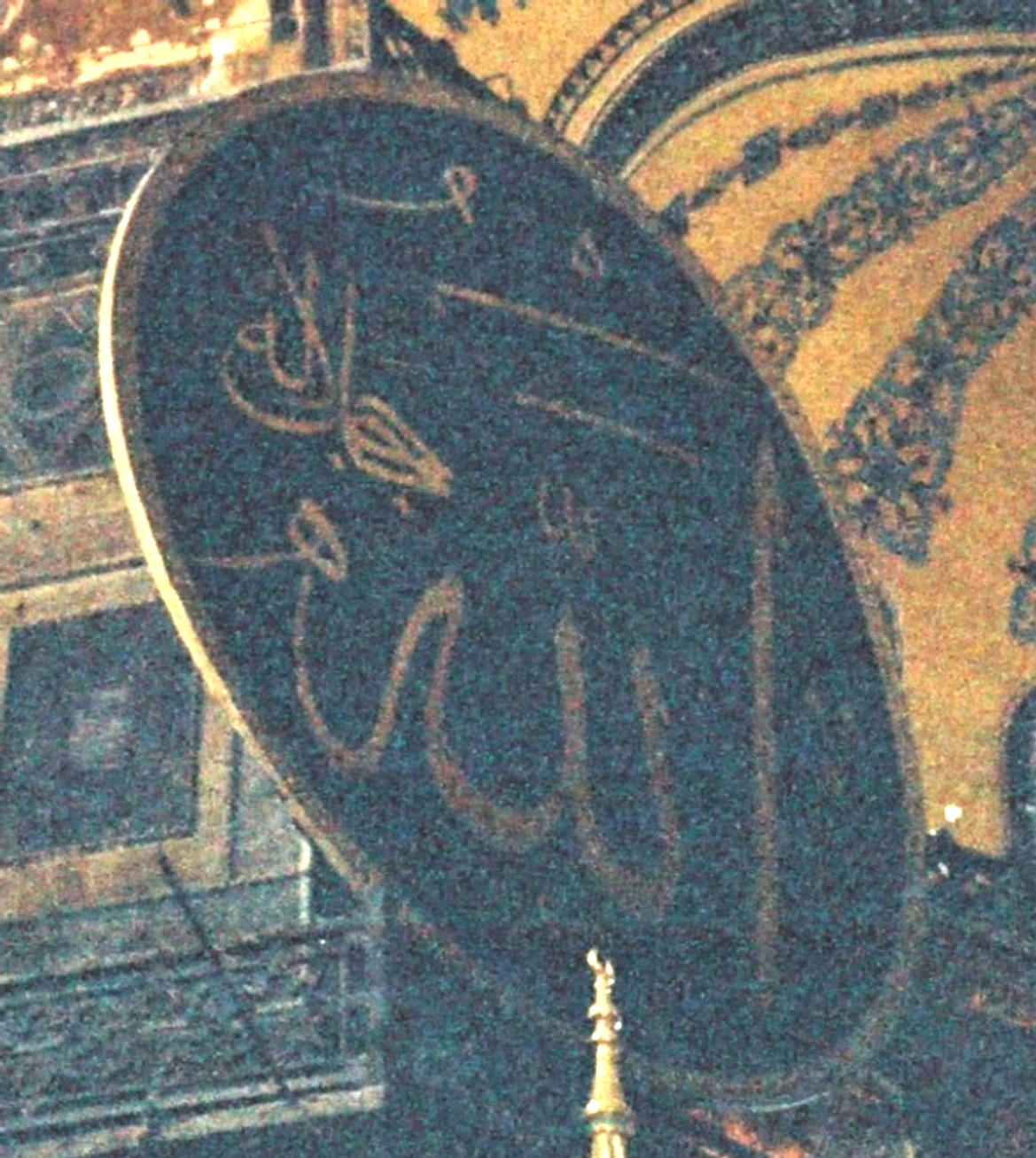 A medalion showing the name 'Allah' in Hagia Sophia, İstanbul